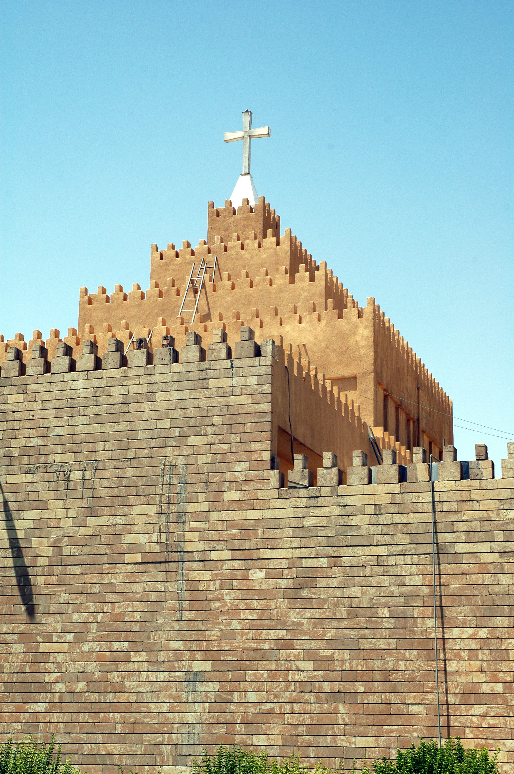 Chaldean Catholic Cathedral of Saint Joseph (Mar Yousif) in Ankawa, a suburb of Arbil.